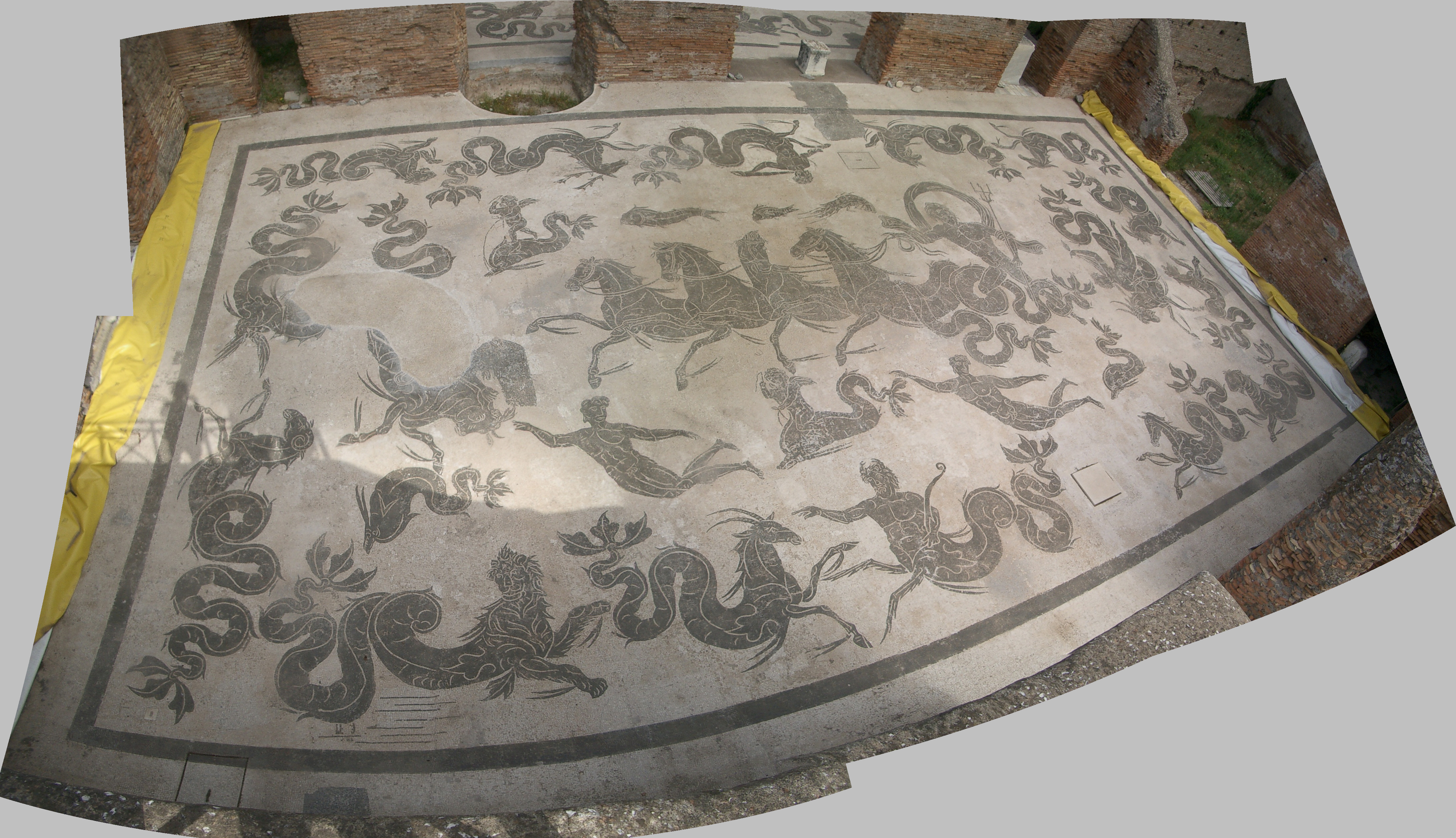 Mosaic in the thermae of Neptune in Ostia Antica. Stitched together from 7 single pictures.